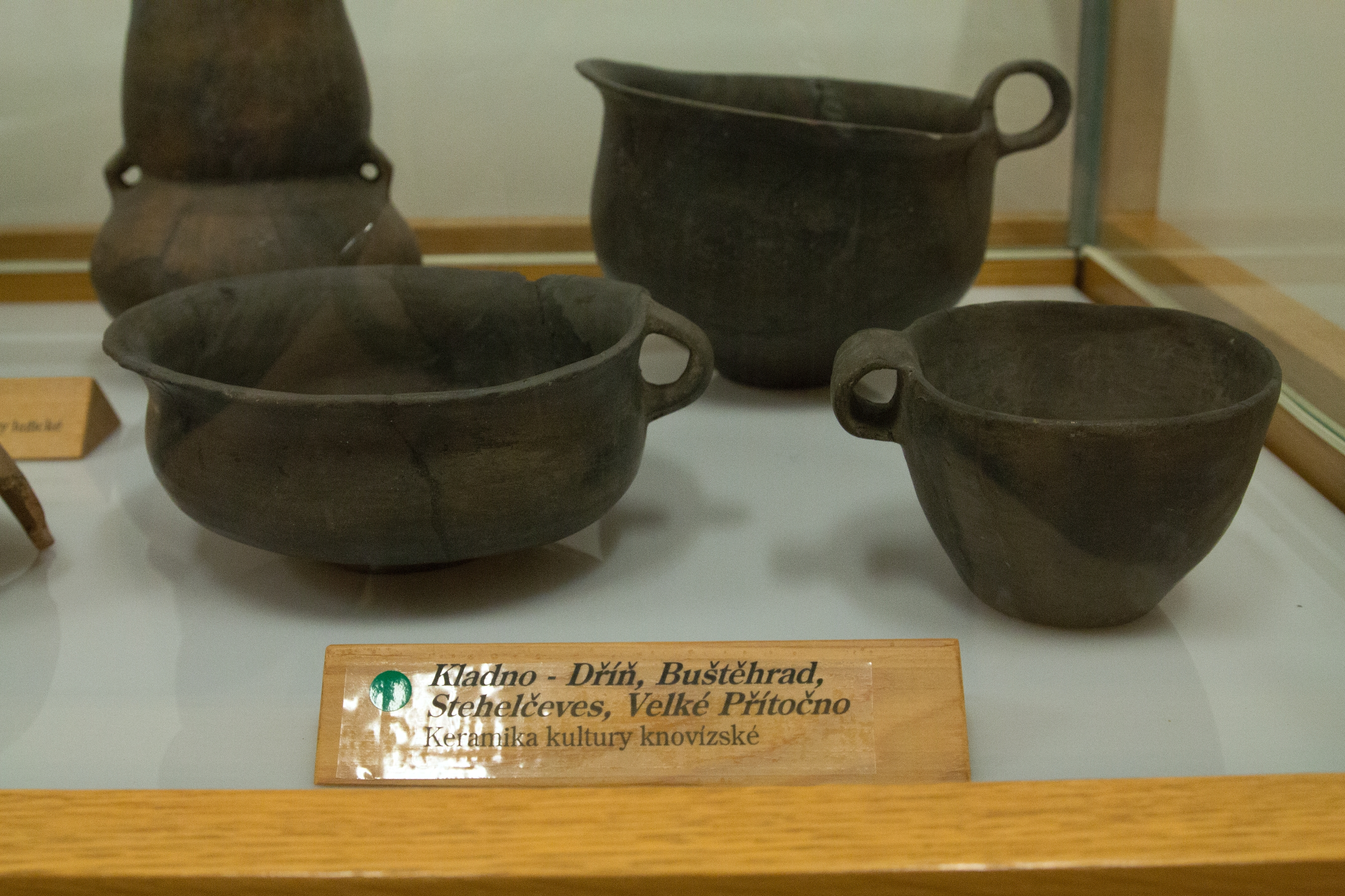 Pottery of the Knovíz culture. Late Bronze Age. Kladno-Dříň, Buštěhrad, Stehelčeves a Velké Přítočno. The Sládeček Museum of Local History in Kladno.